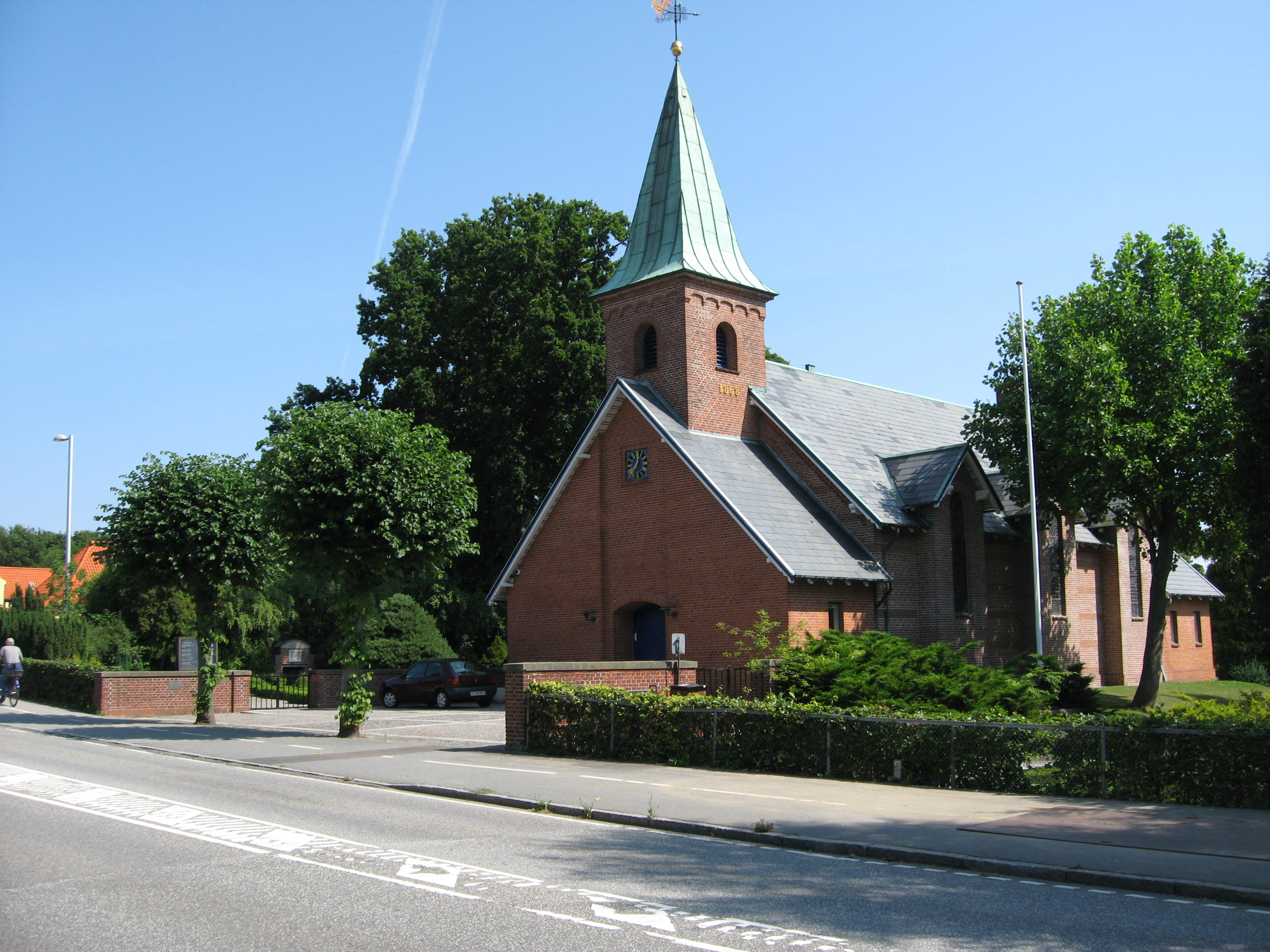 Humlebæk Church, built 1868 by architect Vilhelm Tvede.